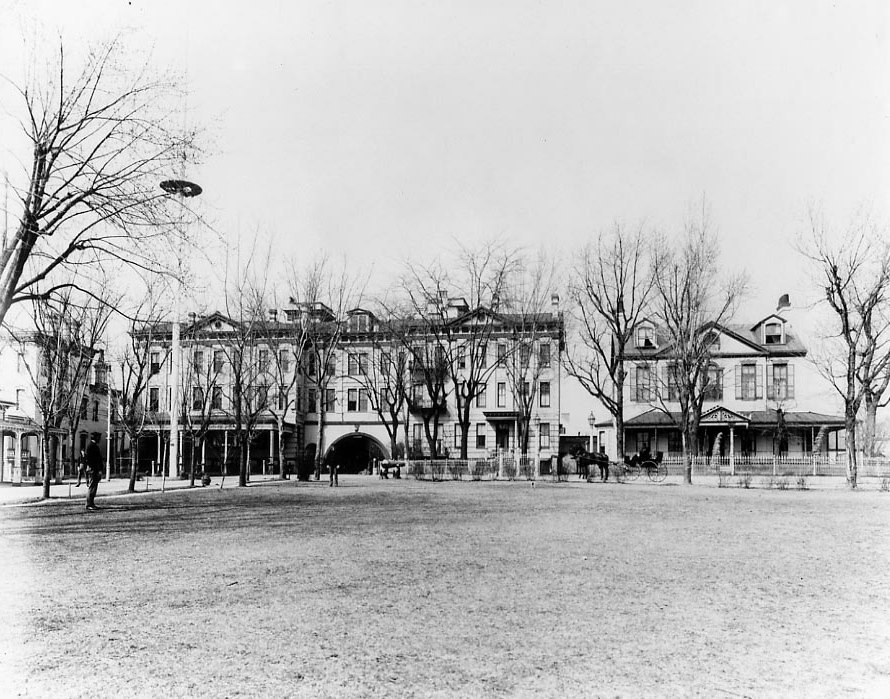 Quarters A, Washington Navy Yard and the Latrobe Gate (left), on the NRHP since August 14, 1973. Located E of Main Gate and S of M St., SE., in the Navy Yard, in Washington, DC. From Naval photographer, via the Naval History Museum